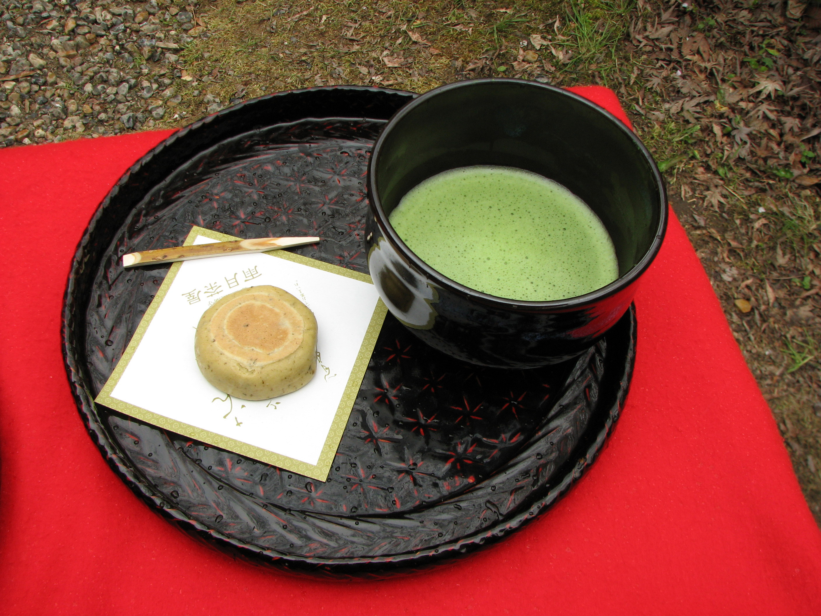 This would have been better if we weren't trying to huddle under one small umbrella to stay dry. Damn weather.